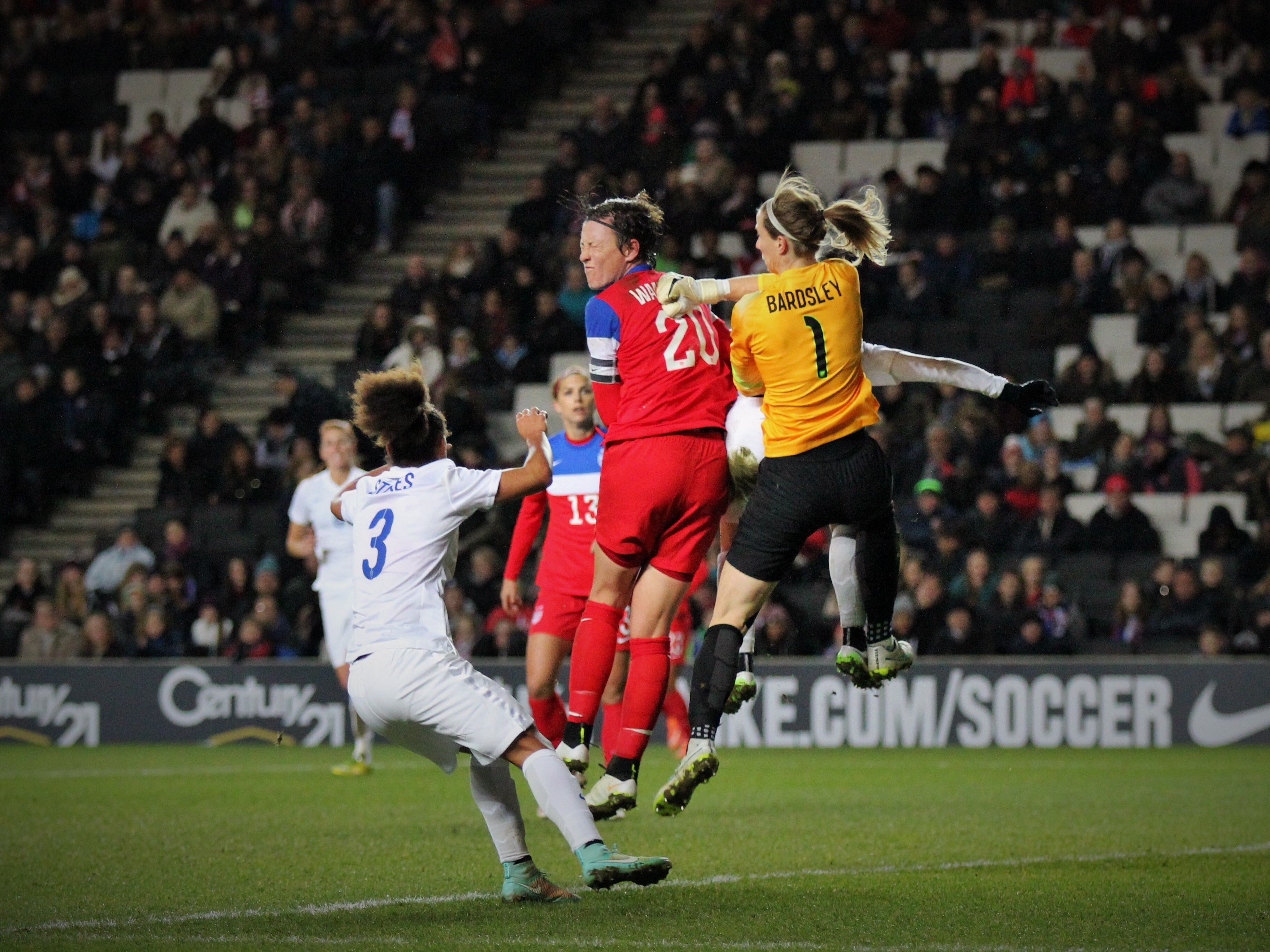 Karen Bardsley of England Women's punches the ball away from Abby Wambach of USA Women's.